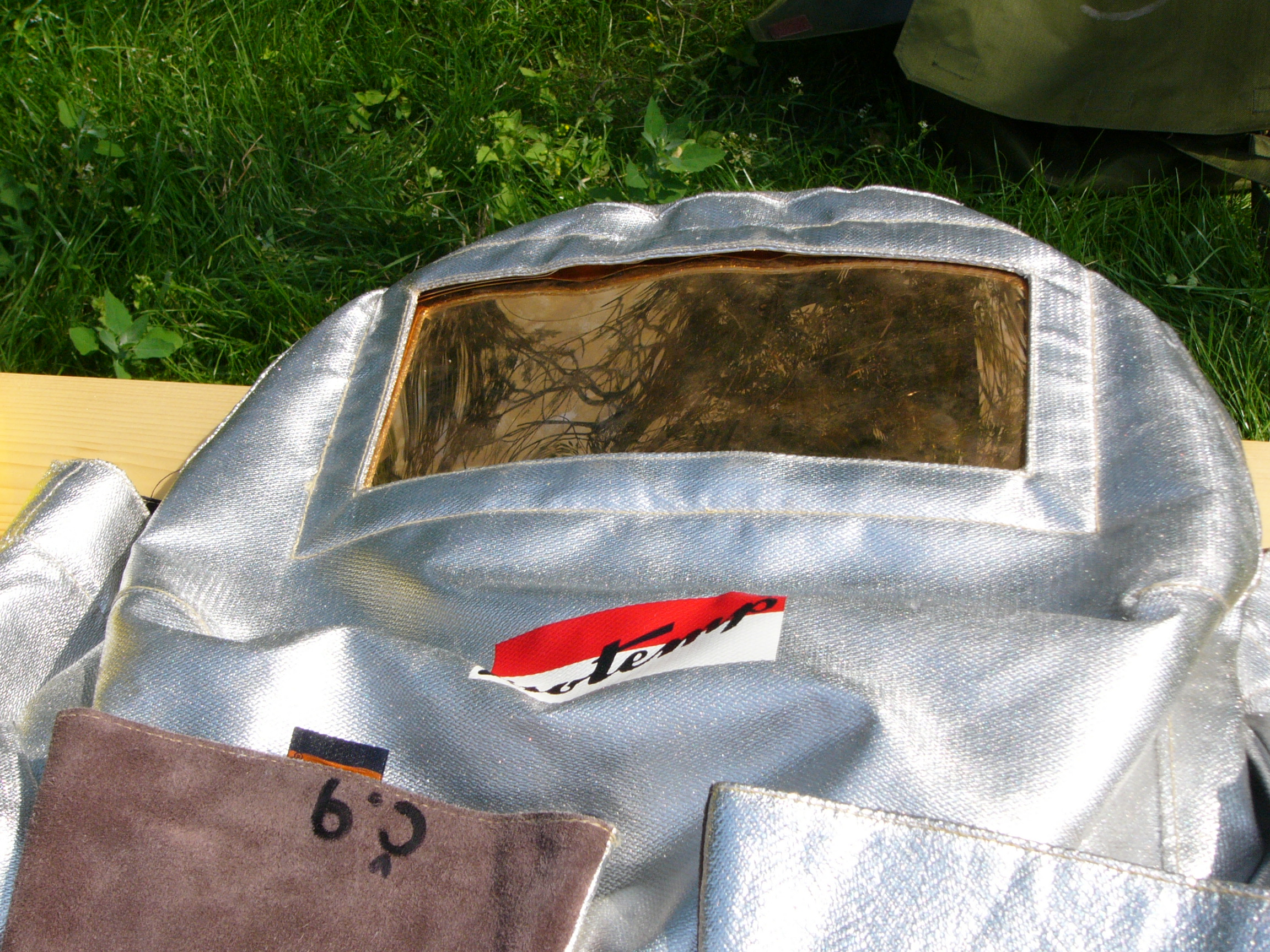 detail of Fire proximity suit in the Czech Republic